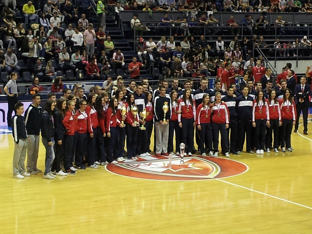 Alll young selections of KK Crvena zvezda and ŽKK Crvena zvezda with national trofeys in 2014/15 season